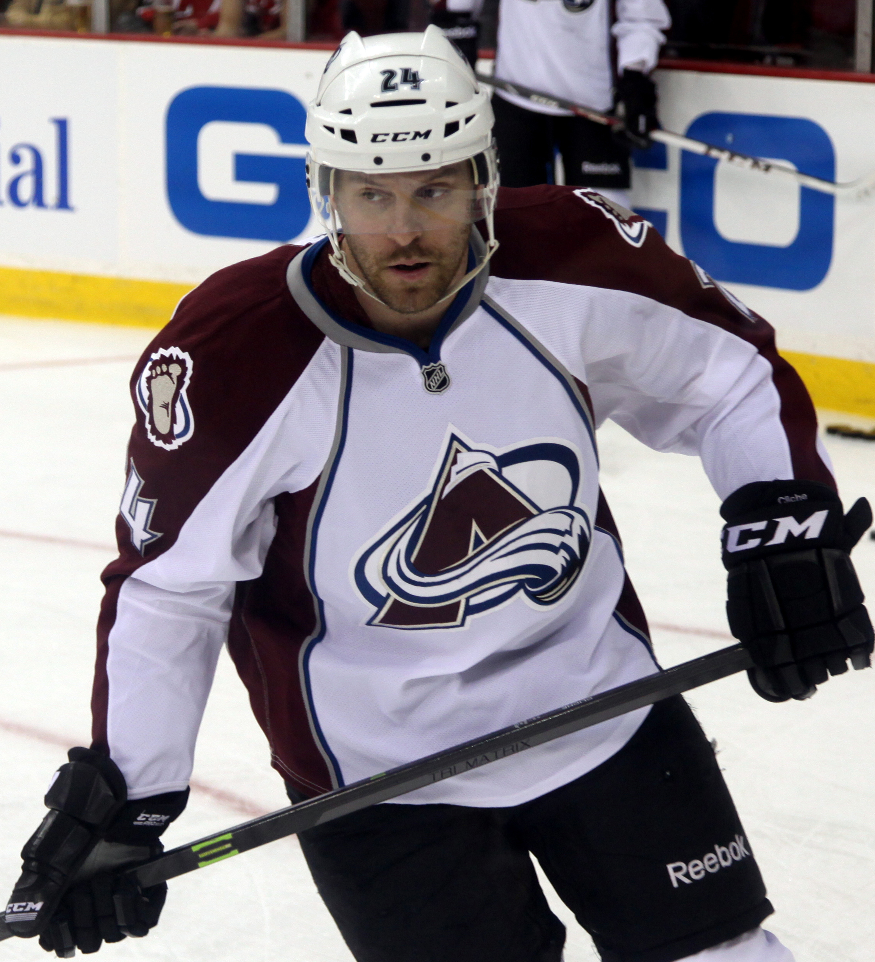 Cliche in February 2014.